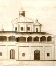 Drawing of the southern face of the Sretensky Cathedral inside Moscow Kremlin (demolished in 1801)